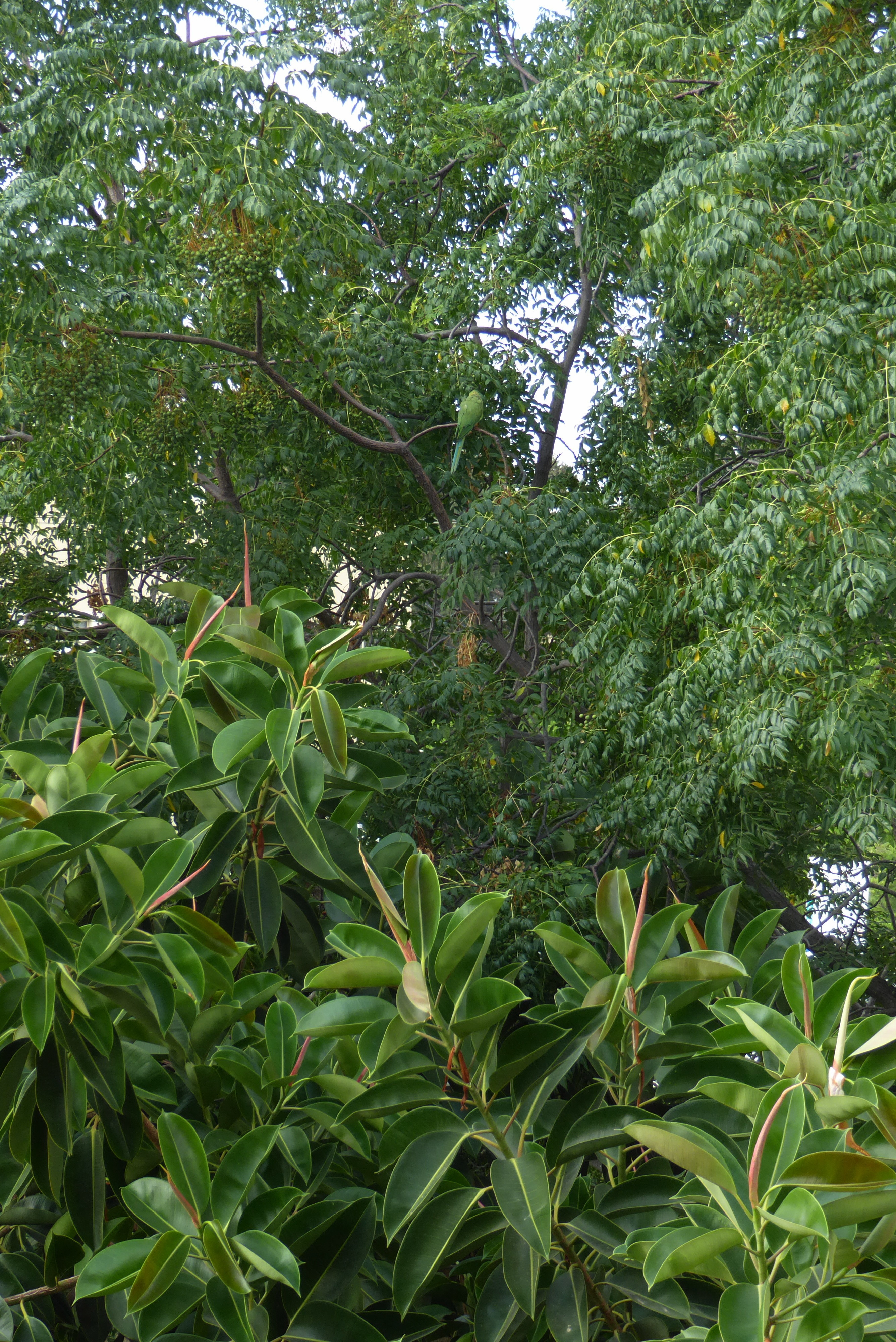 Green Parrot in Ramat Gan